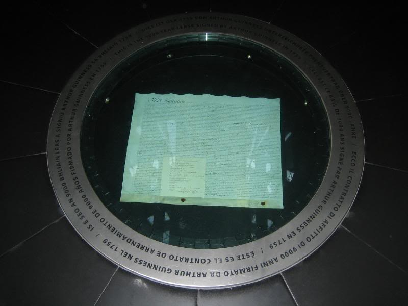 The lease embedded in the floor at the Guinness Brewery in Dublin, Ireland.